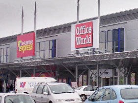 Office World superstore, Kingsway West Retail Park, Dundee. This chain is now defunct in the UK, apparently.